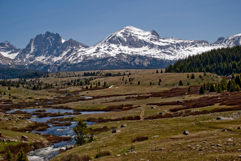 Mount Bonneville, Wind River Range. Taken while hiking in the Bonneville Basin.